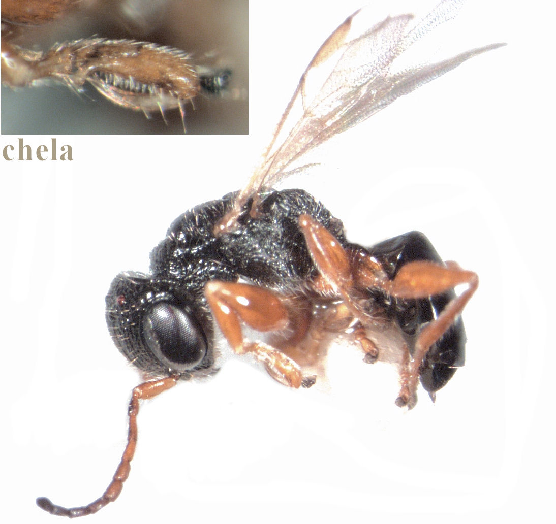 adult female Anteon caledonianum (lateral), with enlarged chela inset